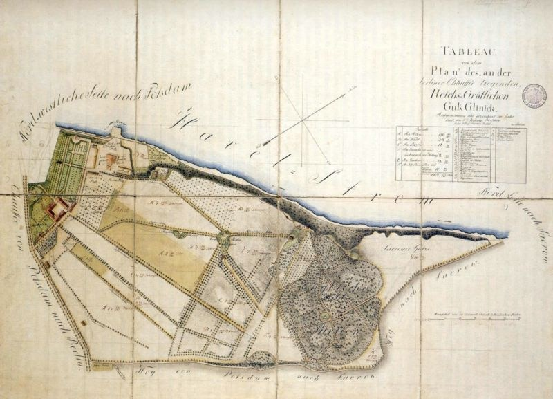 Plan from 1805, landscape Glienicke, Berlin, Germany